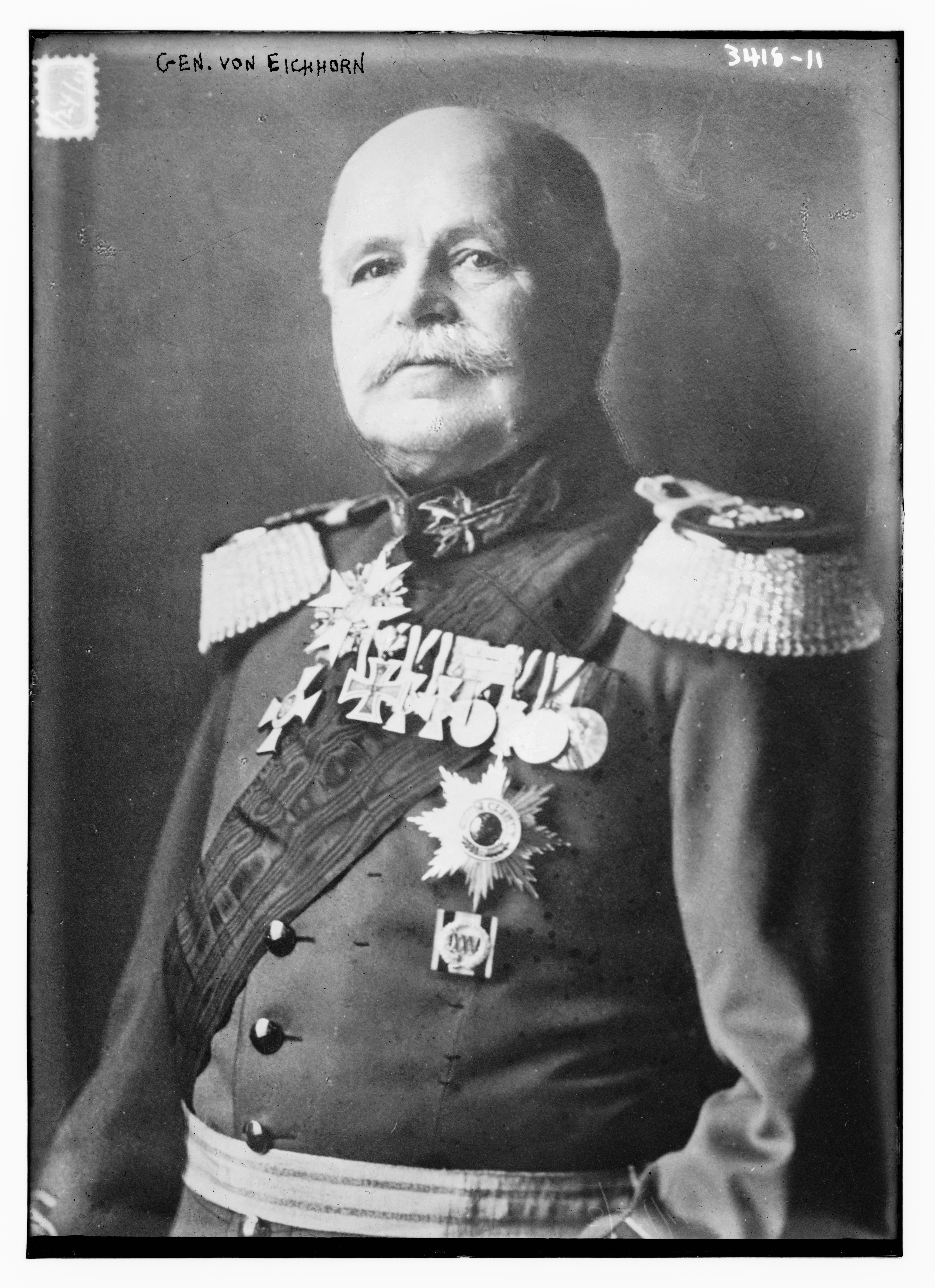 Title: Gen. Von Eichhorn Abstract/medium: 1 negative : glass ; 5 x 7 in. or smaller.